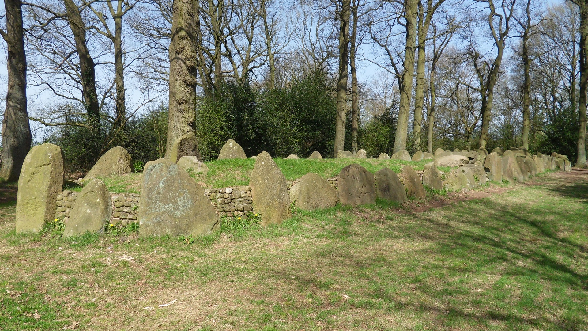 Dolmen d43 in Emmen